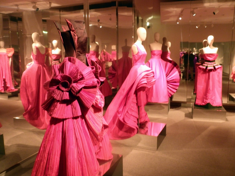 Sculpture dresses in the museum Capucci in Florence – Italy.